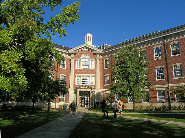 Carpenter Hall, on the Earlam College Campus